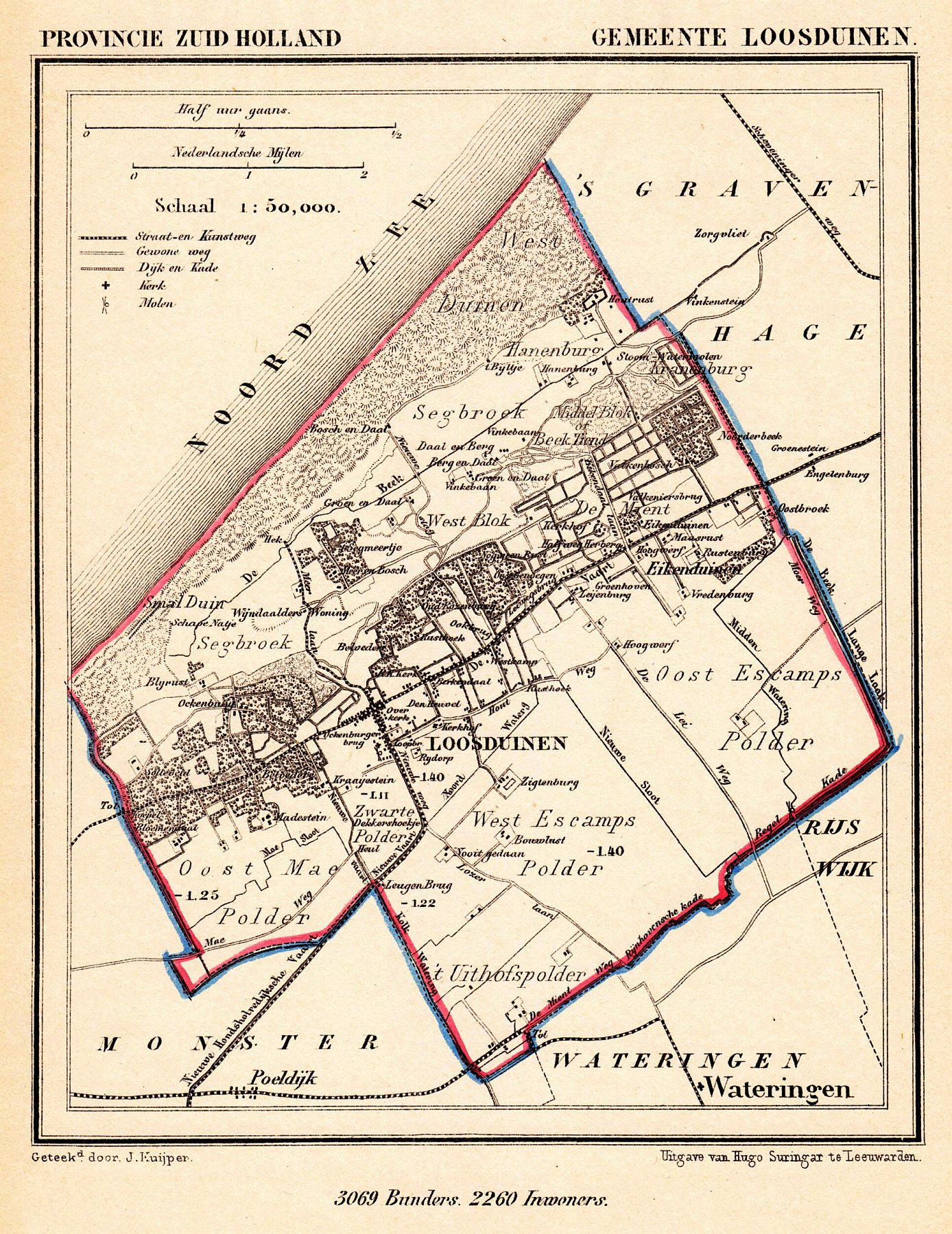 Historic map of the former municipality of Loosduinen, South Holland, the Netherlands Kaart van de voormalige gemeente Loosduinen, Zuid-Holland, Nederland